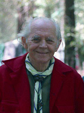 Bela Banathy at Pico Blanco Scout Reservation in the summer of 1998, taking part in the 50th anniversary observation of the White Stag Leadership Development Program that he founded.